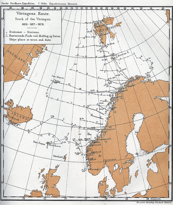 Route of the Norwegian North-Atlantic Expedition 1876-1878.